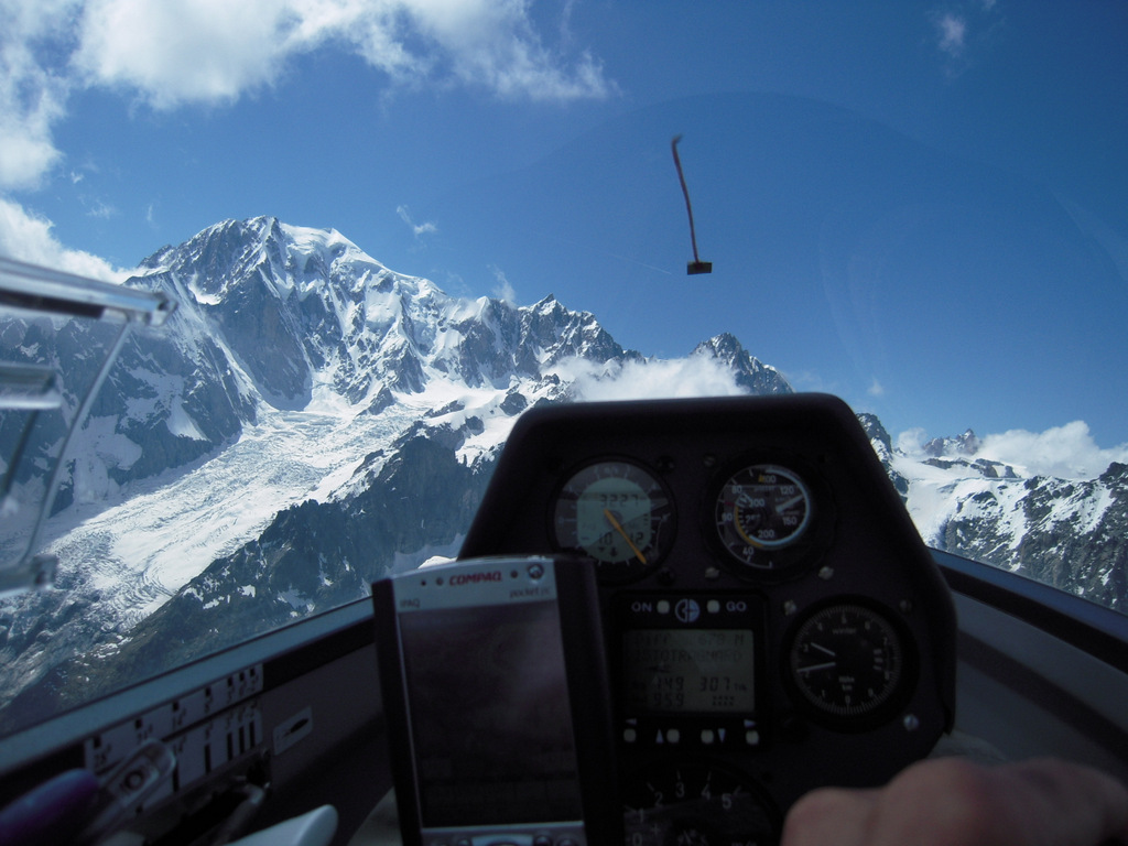 Instrument Panel SZD-56 Diana 2